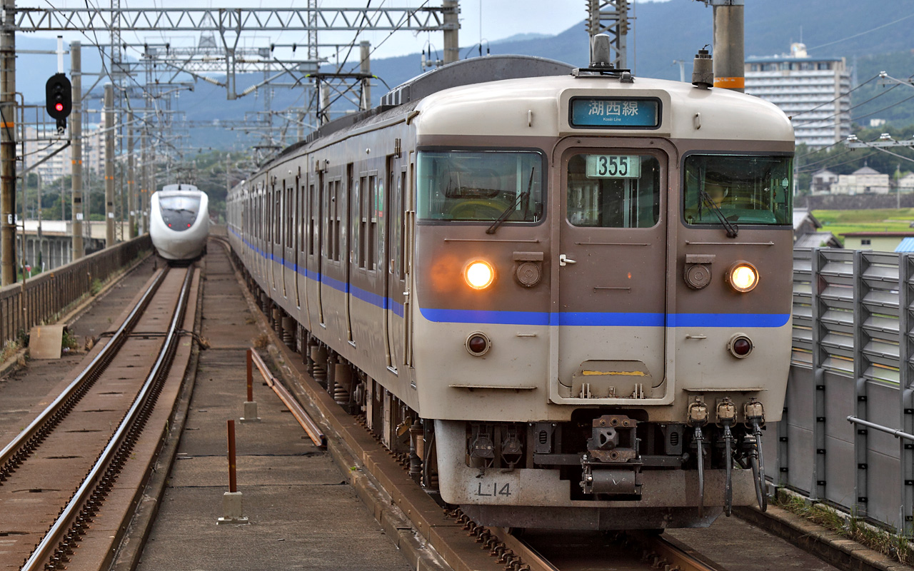 JNR 113 series EMU of JR West, at Hira Sta.